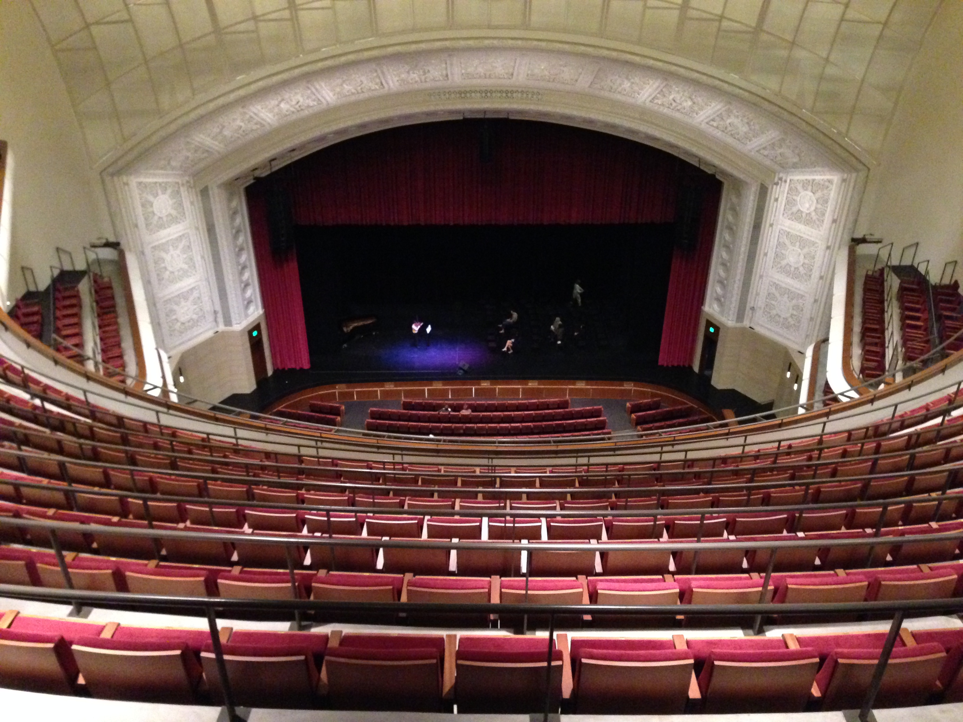 Northrop auditorium at the University of Minnesota, Twin Cities, upon reopening in April 2014.